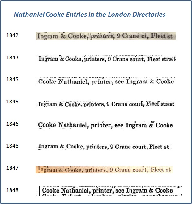 This is a listing of Nathaniel Cooke's entries in the London Directories (commercial, trade, street directories).